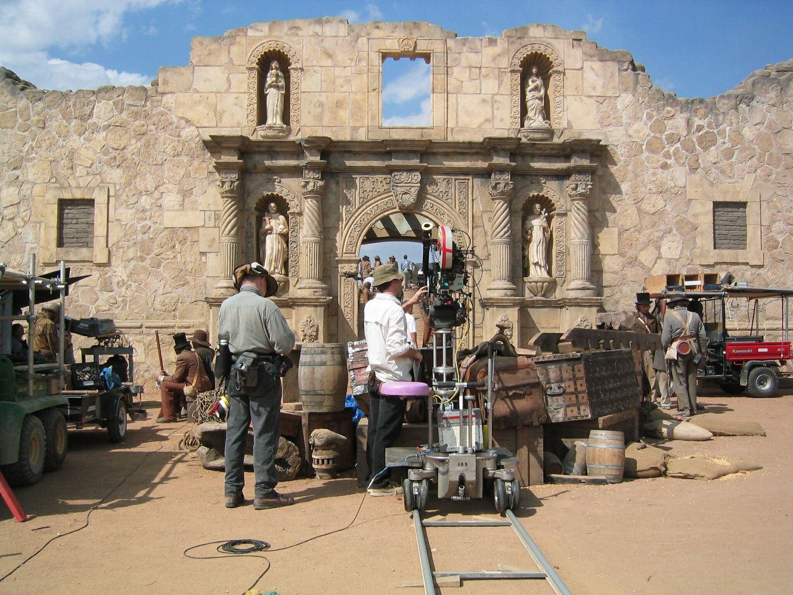 Crew members filming The Alamo (2004)